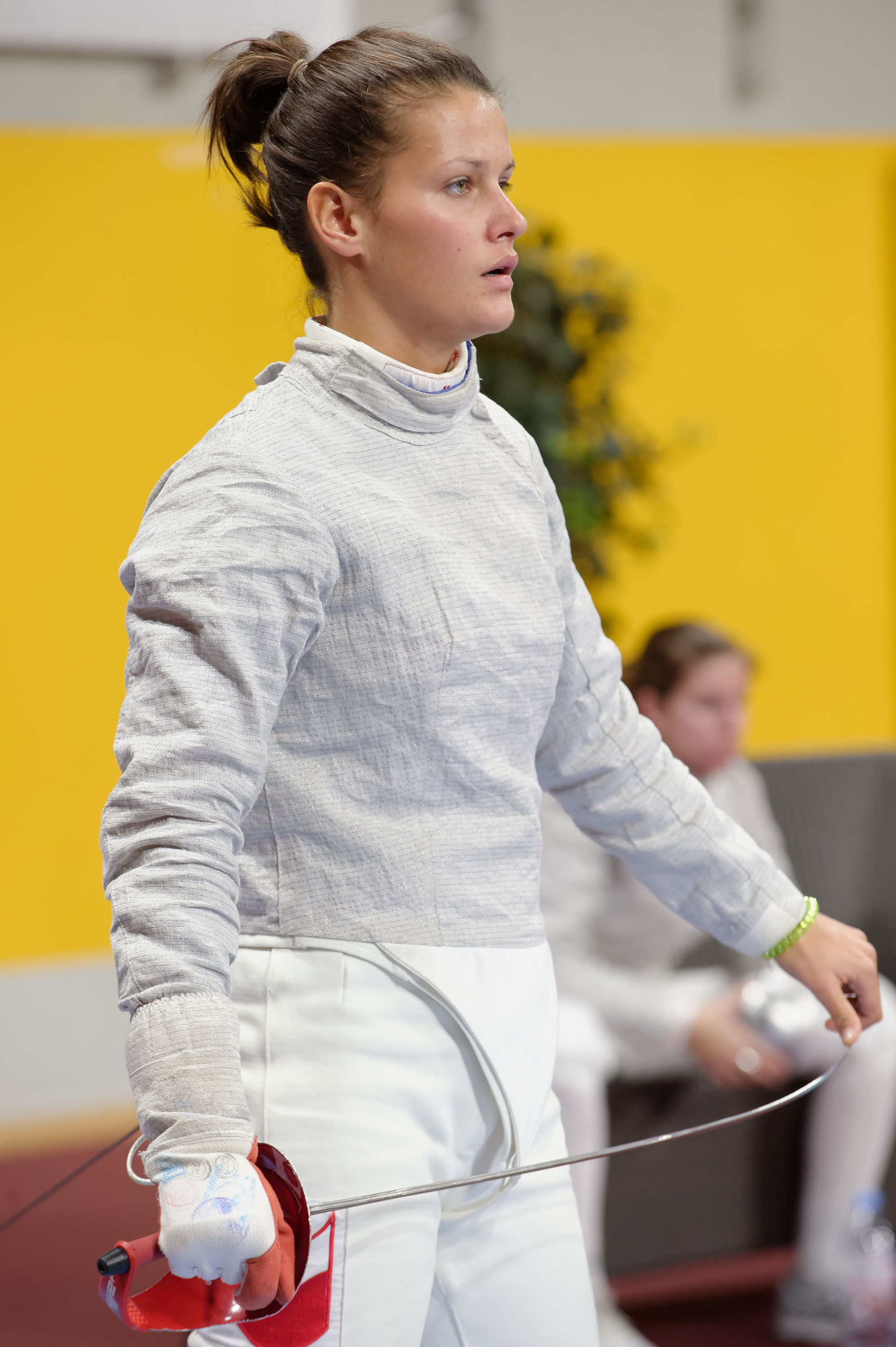 Poland's Katarzyna Kędziora in qualifications for the 2015–16 Orléans World Cup in women's sabre.